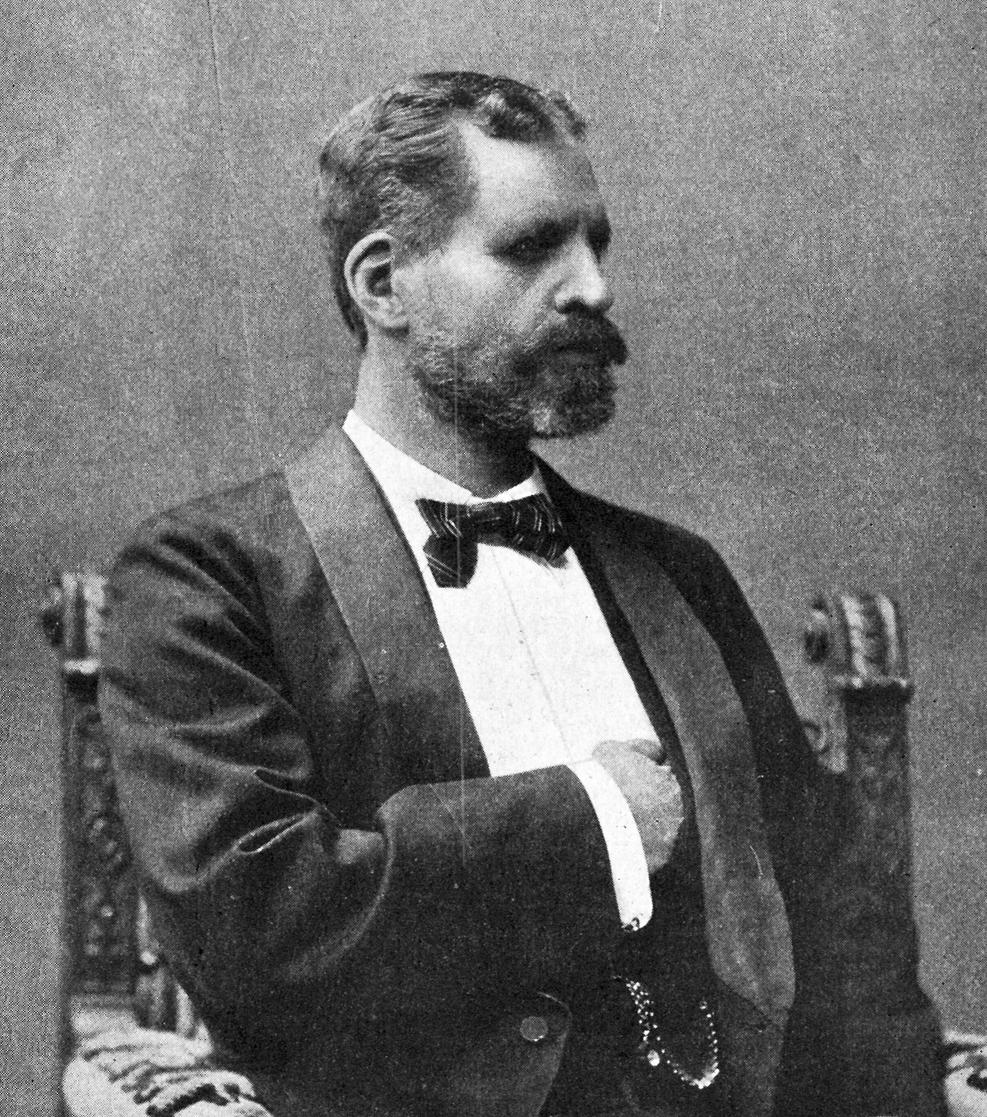 Picture of Edvard Wavrinsky. Swedish politician